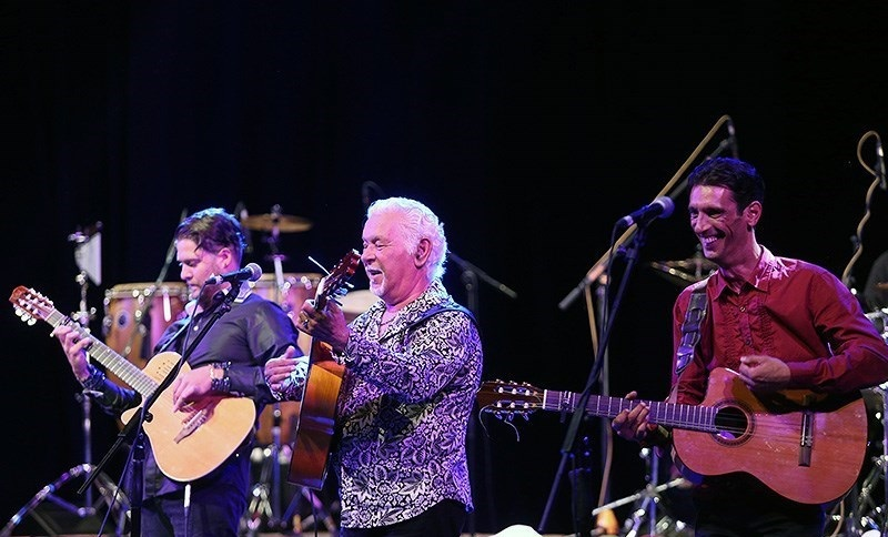 Gipsy Kings concert in Tehran's Vahdat Hall